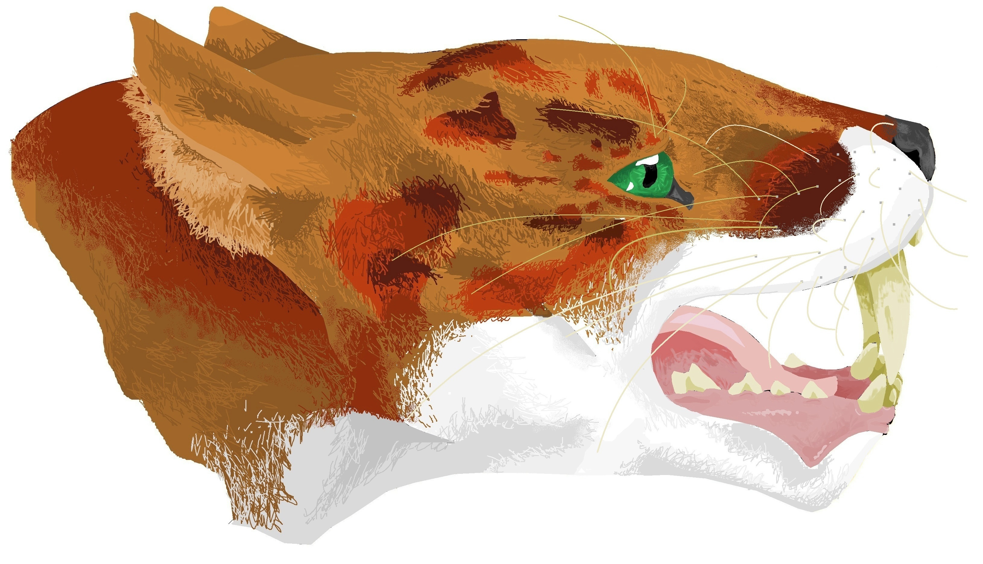 digital reconstruction of the creodont Machaeroides